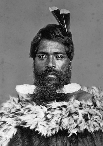 Unidentified Māori man with two huia tail feathers in his hair, and wearing a feather cloak, Hauraki district, New Zealand